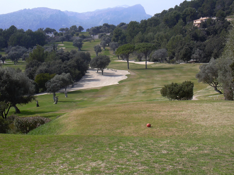 Fairway of 9th hole seen from Tee, Pollença